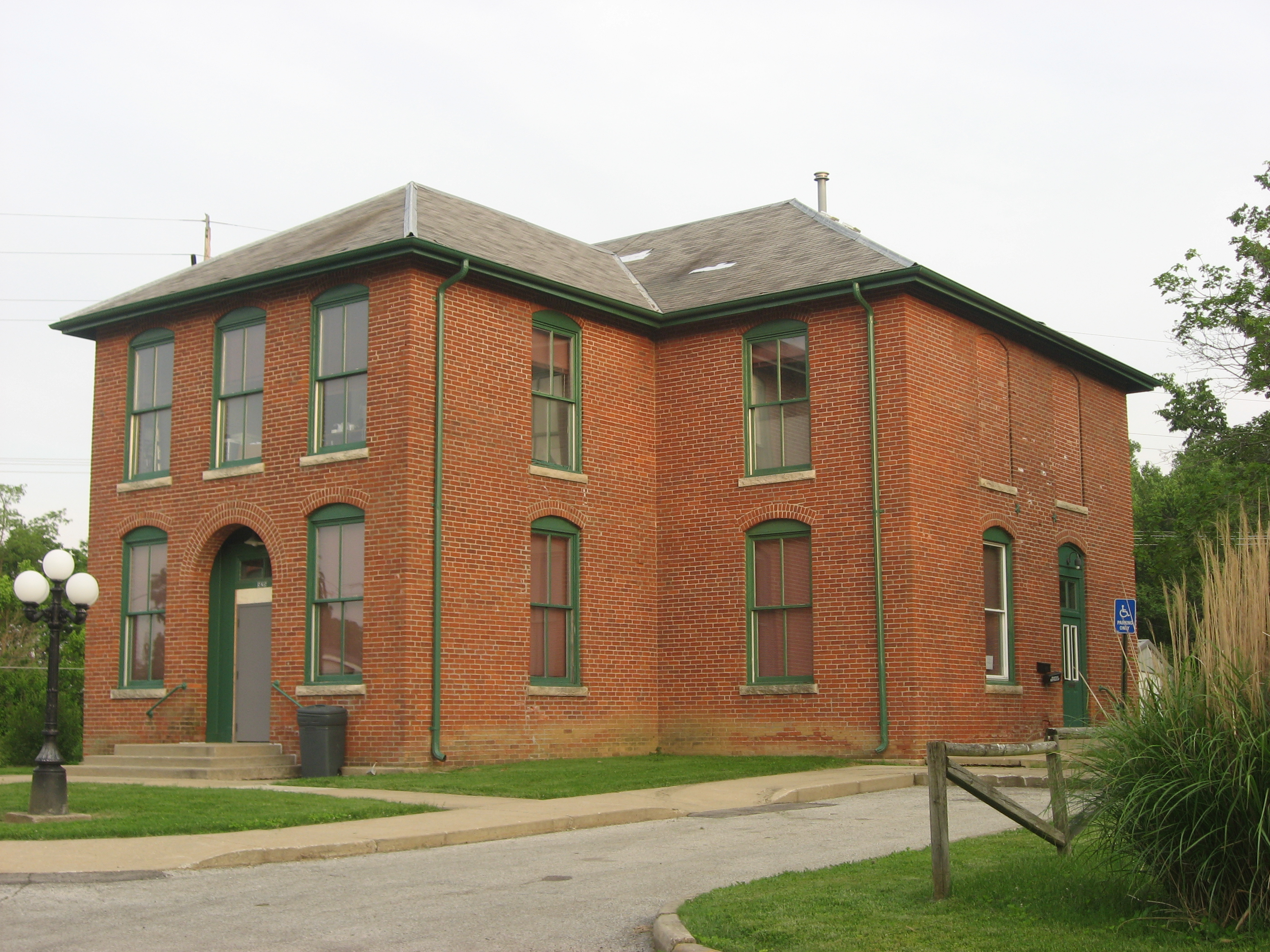 Front and western side of the Booker T. Washington School, located at 525 E. Seventh Street in Rushville, Indiana, United States. Built in 1905, it is listed on the National Register of Historic Places.